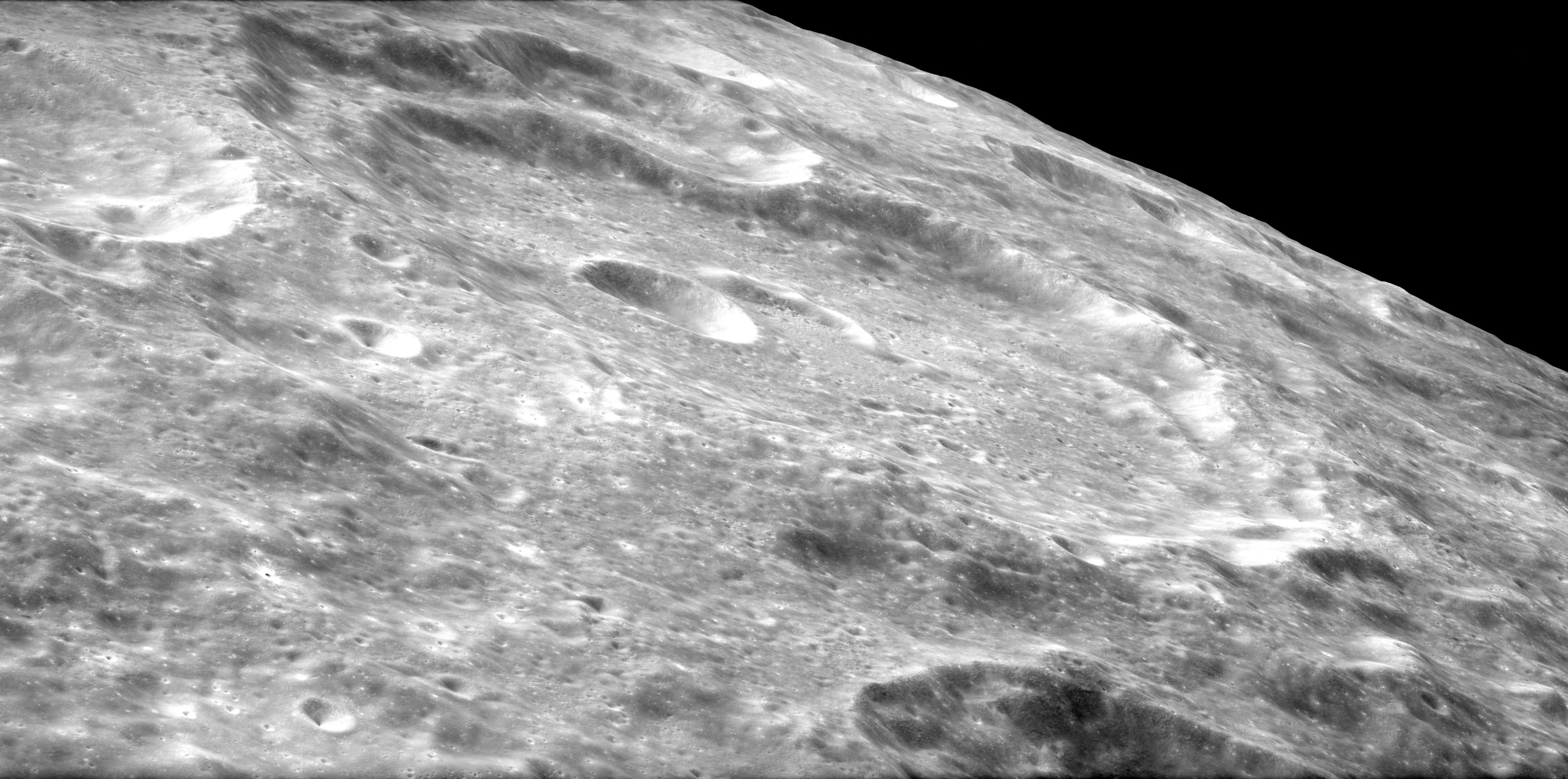 Oblique view of Saha crater, facing northwest, on the moon. Taken by Apollo 17 panoramic camera.